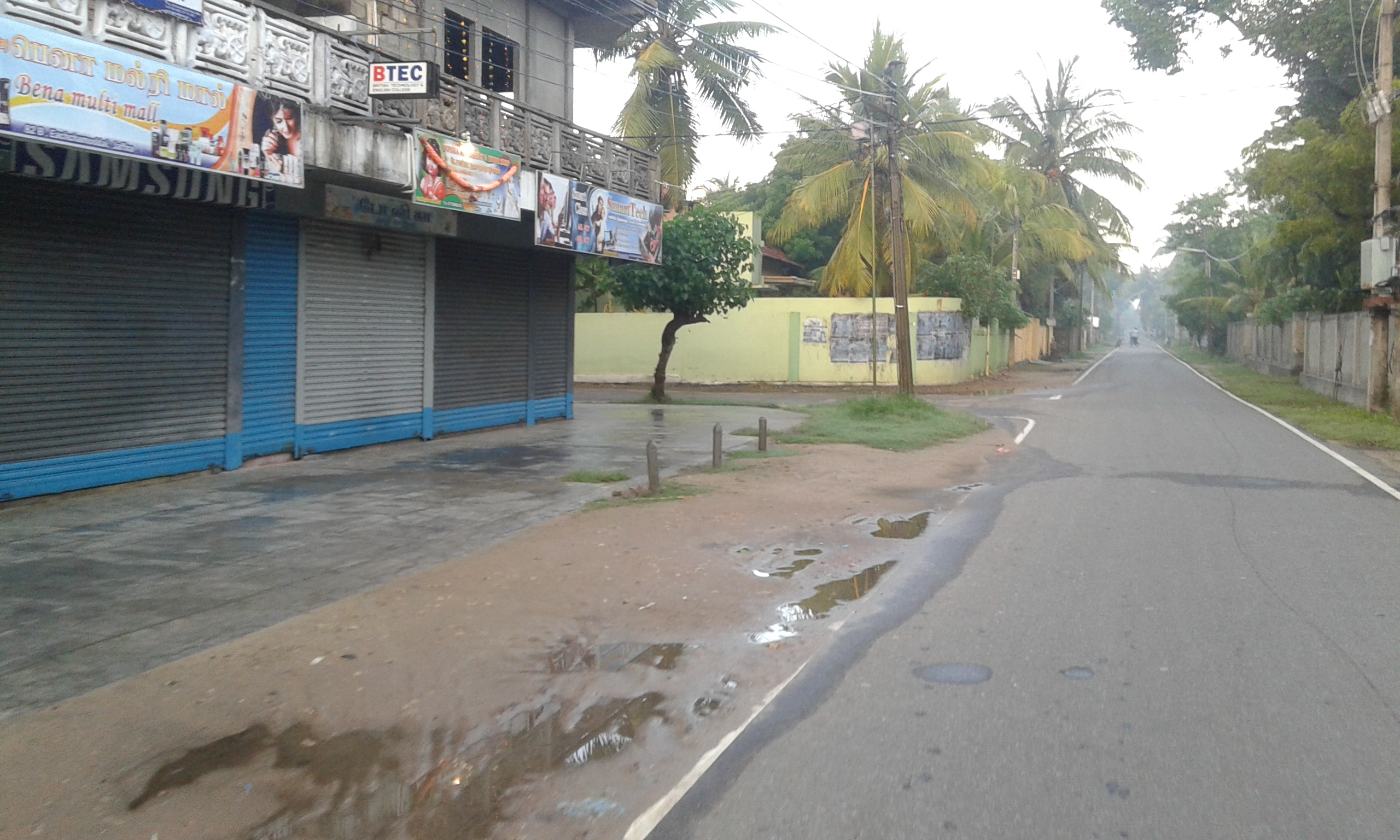 ஈச்சமொட்டை வீதி